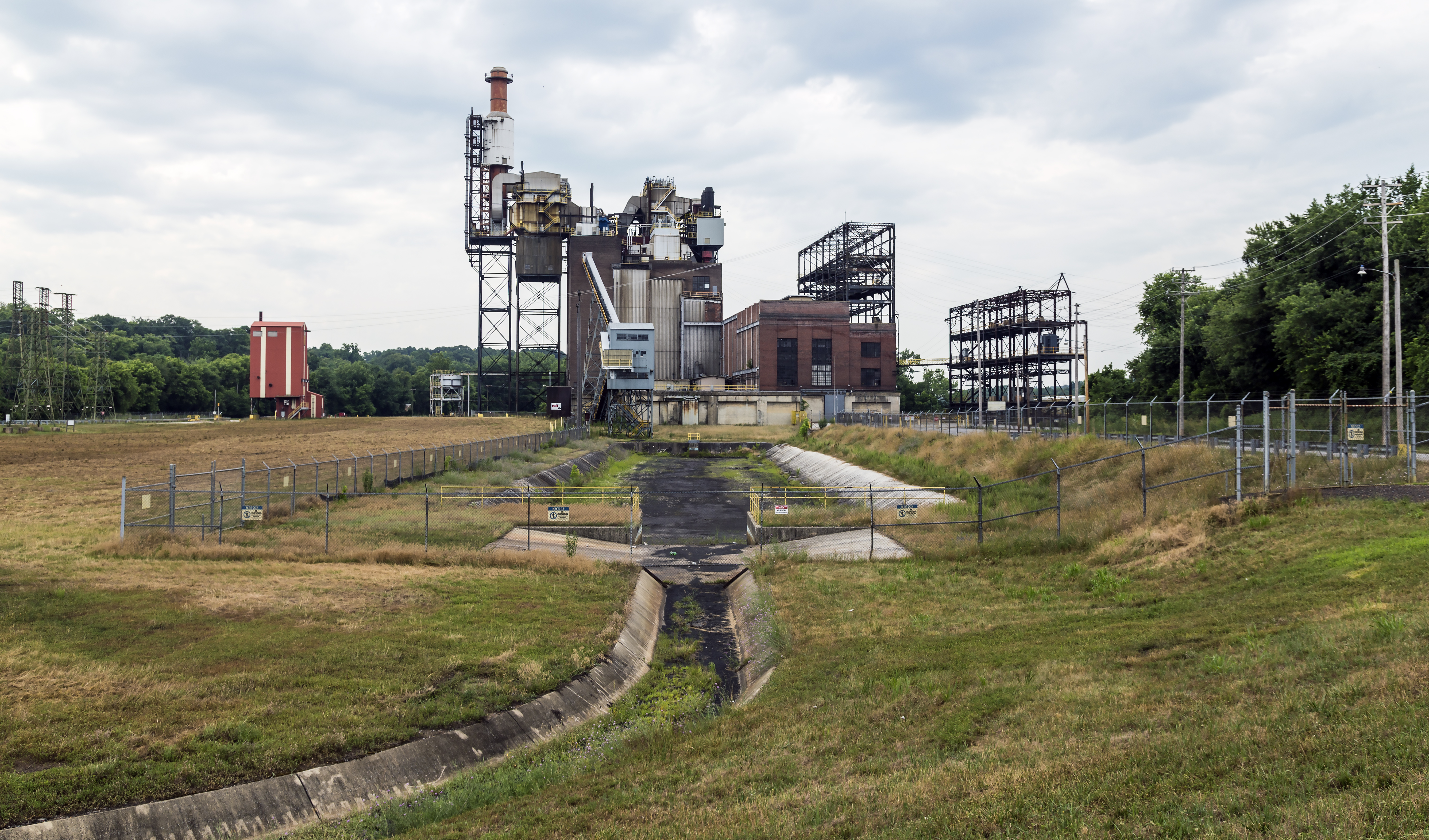 The abandoned R. Paul Smith Powerplant in Williamsport, Maryland, USA